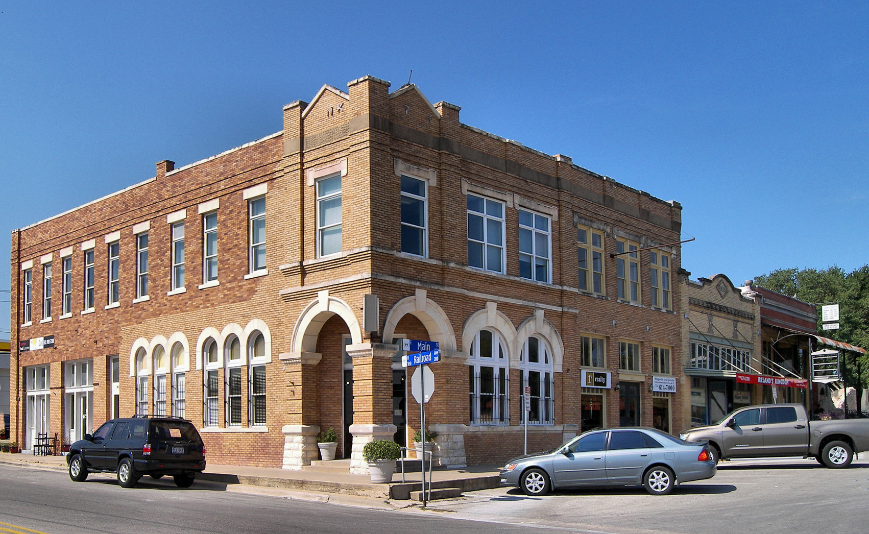 The East Main Street Historic District in Pflugerville, Texas, United States. The district was listed on the National Register of Historic Places on September 10, 2012.